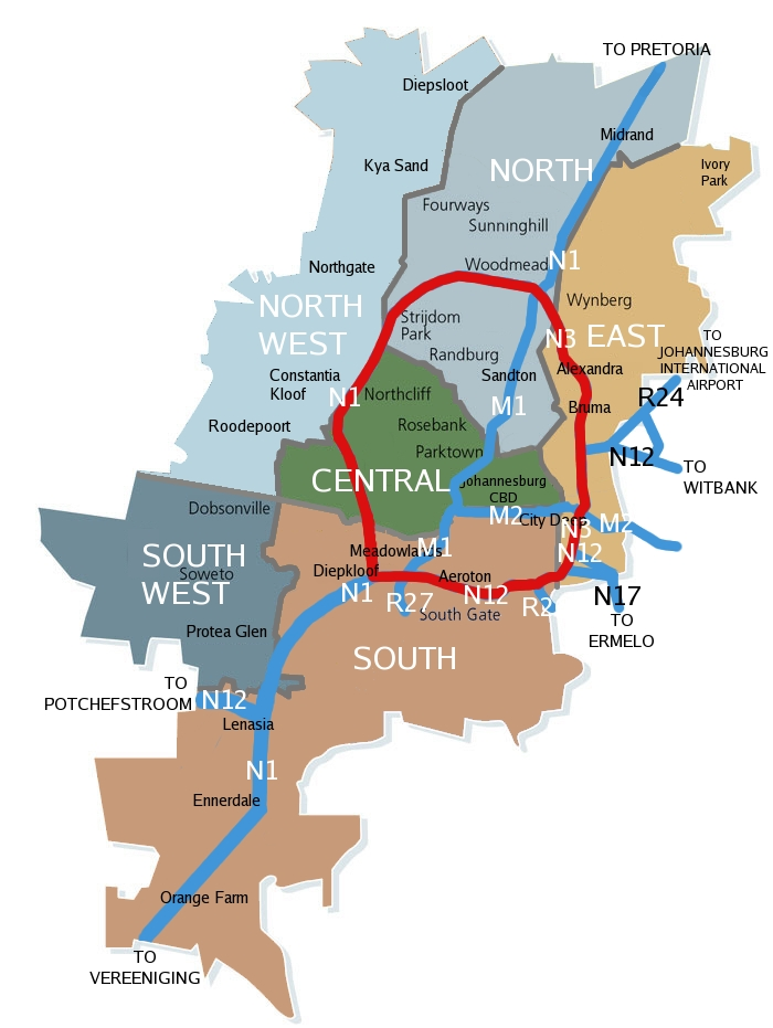 Map of Johannesburg with road and region markings. Johannesburg Ring Road highlighted in red.